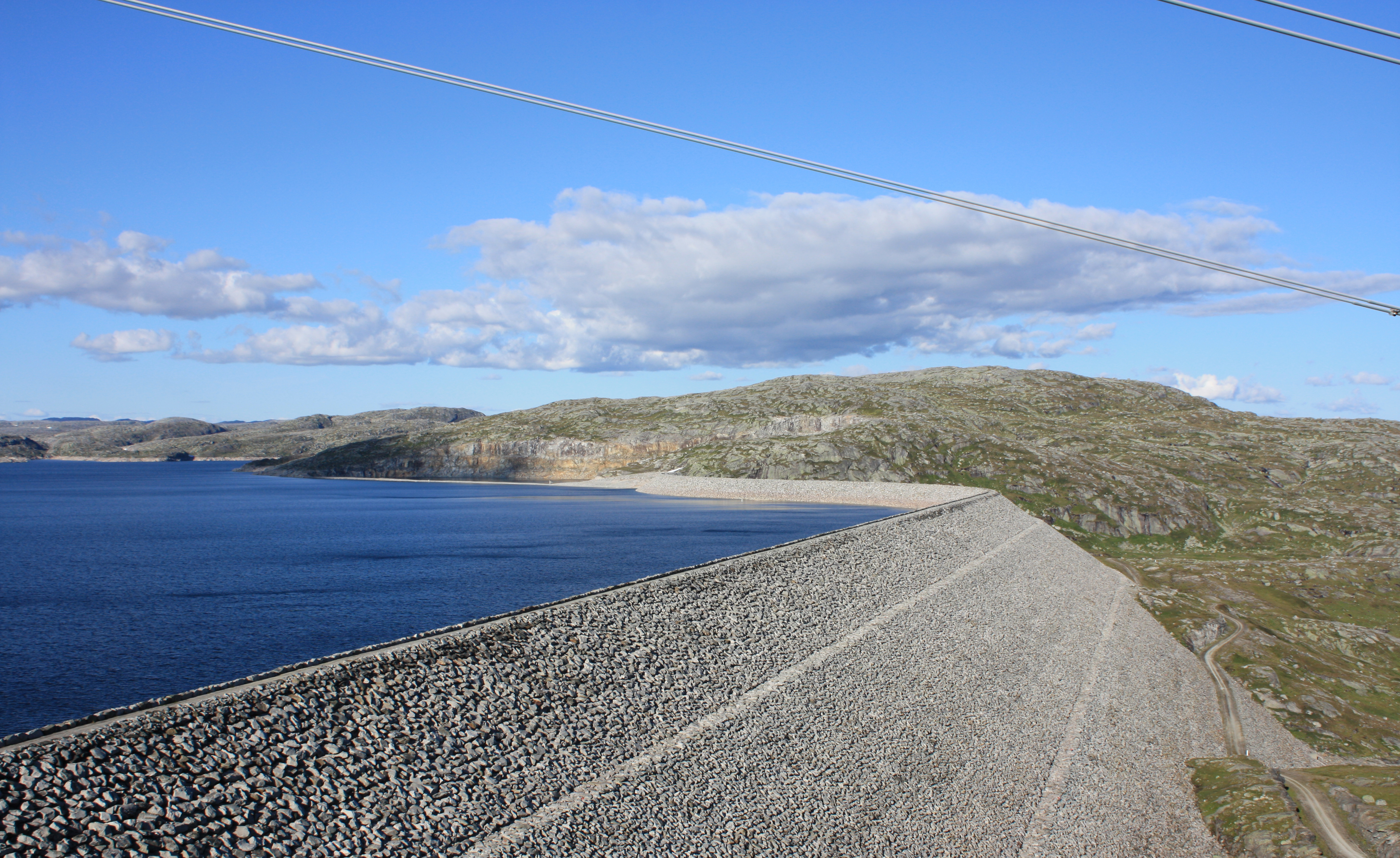 Storvassdammen and Blåsjø. Part of Ulla-Førre